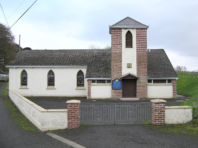 Gillygooley Presbyterian Church. Located along the Mullagharn Road in the heart of the farming community of Gillygooley